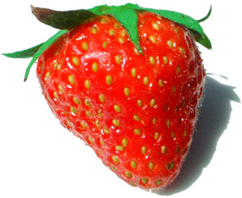 A strawberry